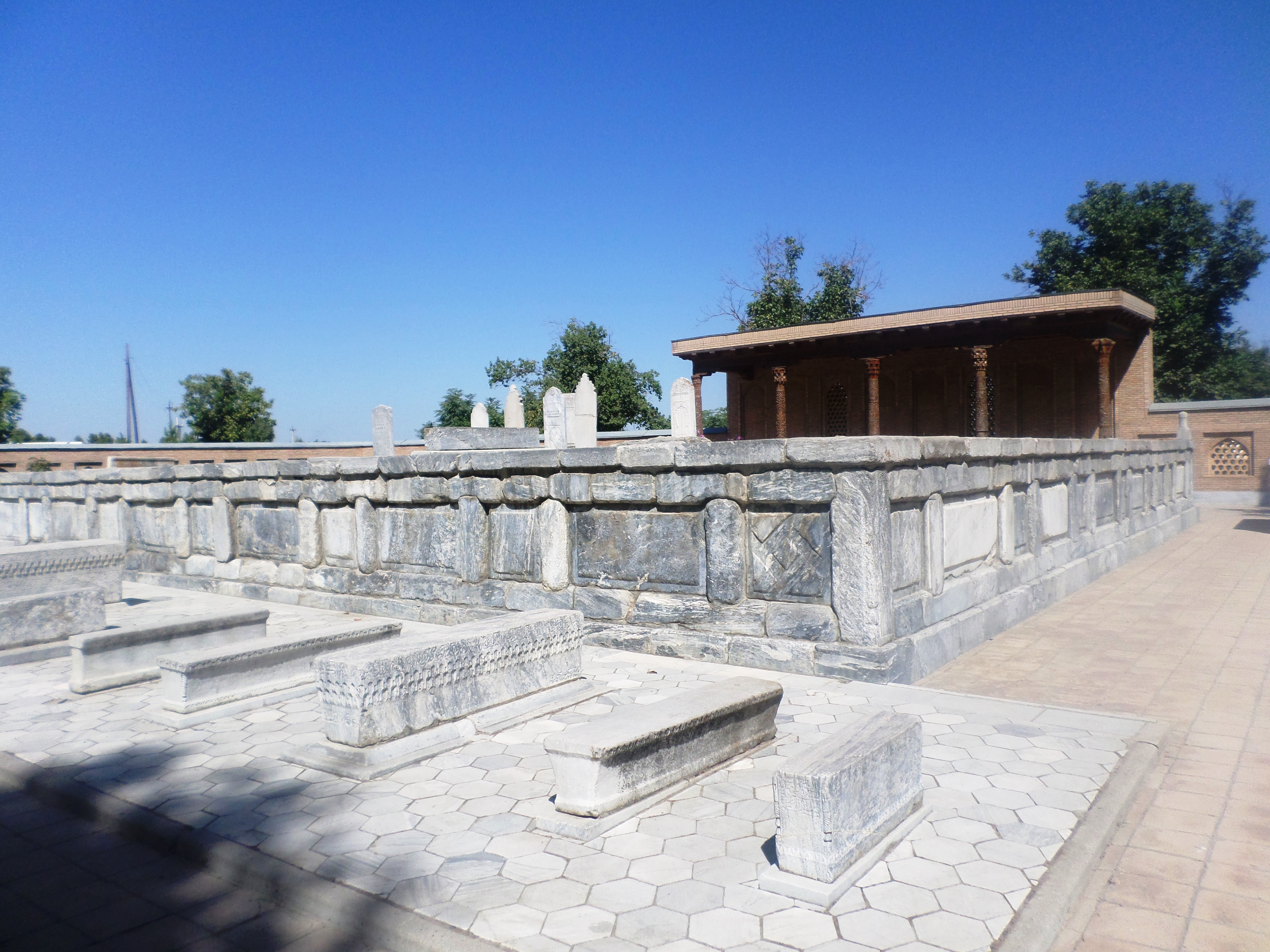 Sights of Samarkand, Makhdumi Azam Mausoleum, 2015